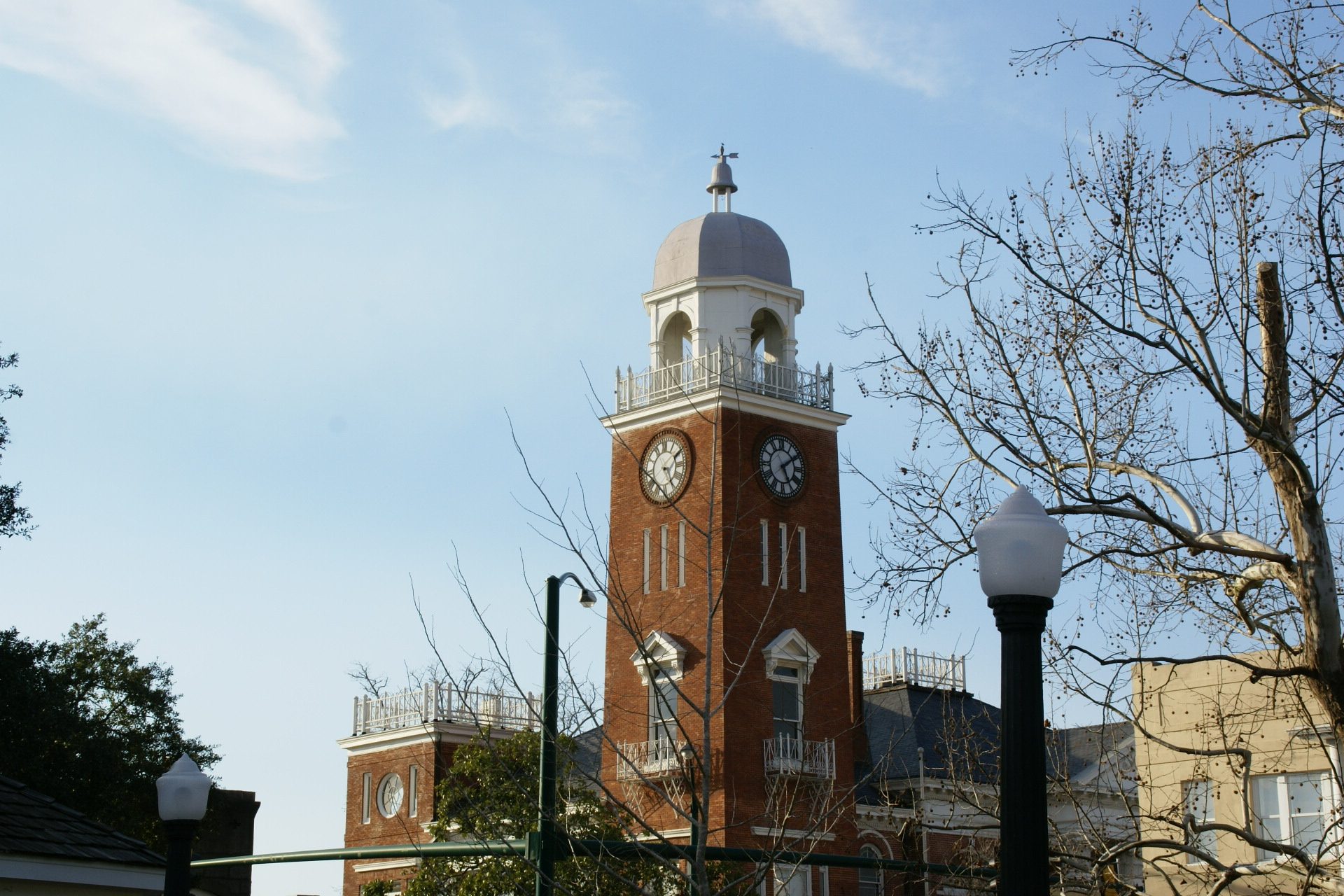 Clock tower of Decatur County Courthouse seen from Willis Park in Bainbridge, Georgia, USA